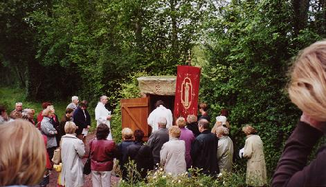 Fontaine de Saint-Ortaire, au Manoir de Saint-Ortaire (propriété privée) 50620 Le Dézert, Normandie, France.